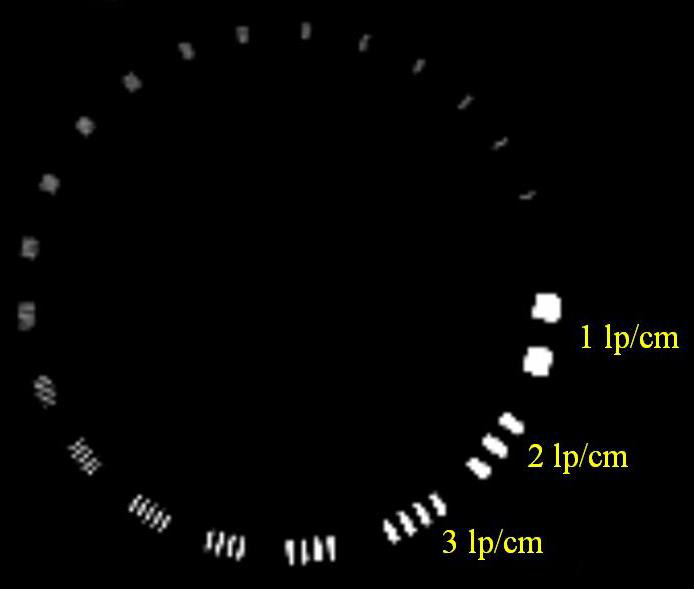 A display of a circular resolution tool bar with measurements in line pair per centimeters. Used for Quality control assessments in Diagnostic Imaging in Medical Physics.